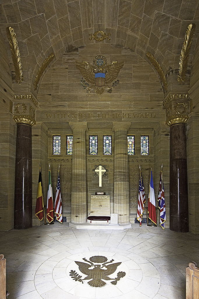 ABMC Brookwood Military Cemetery - Chapel Interior